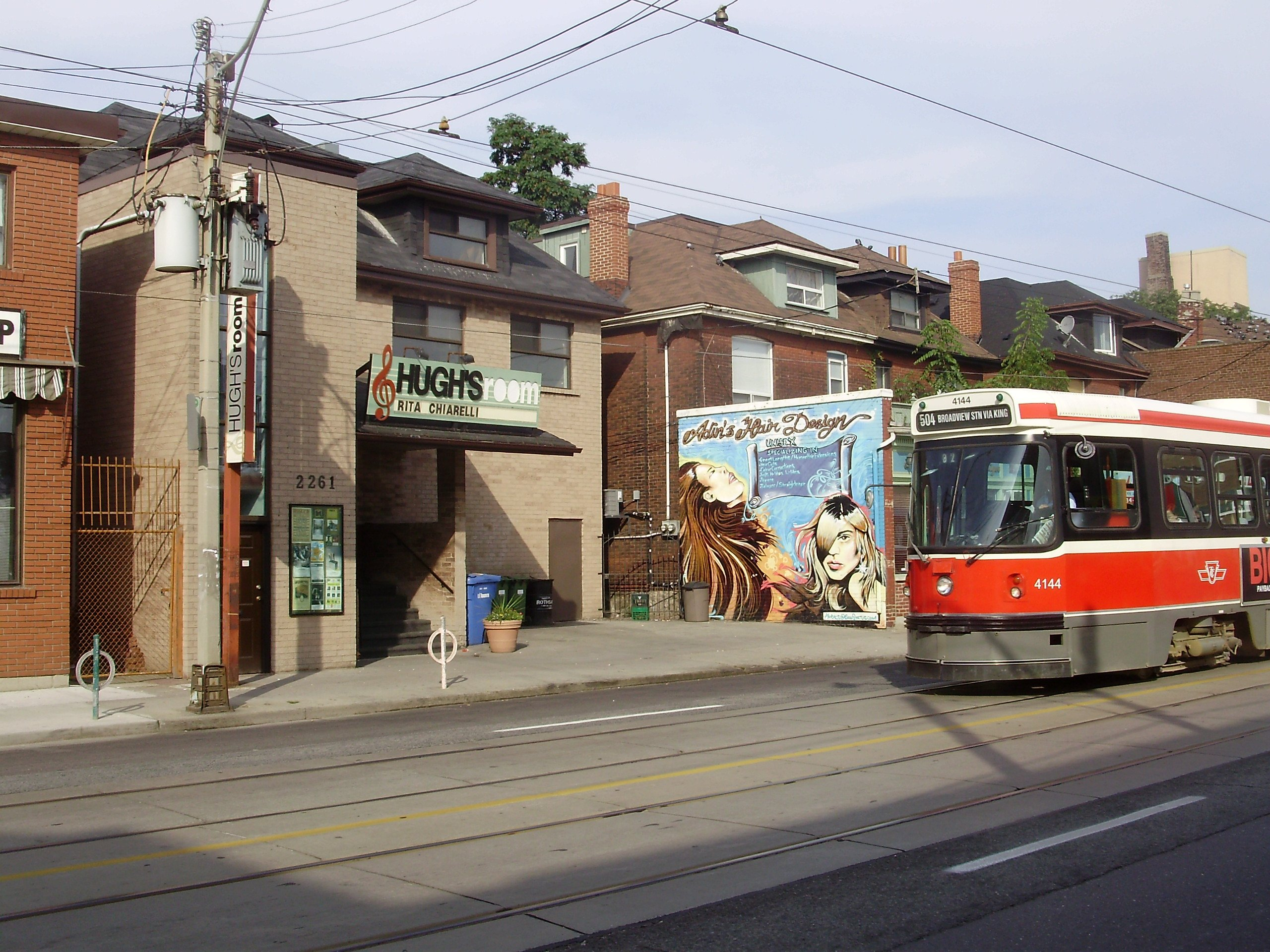 Hugh's Room, a restaurant and folk music venue, on Roncesvalles Avenue in Toronto, Ontario, Canada.